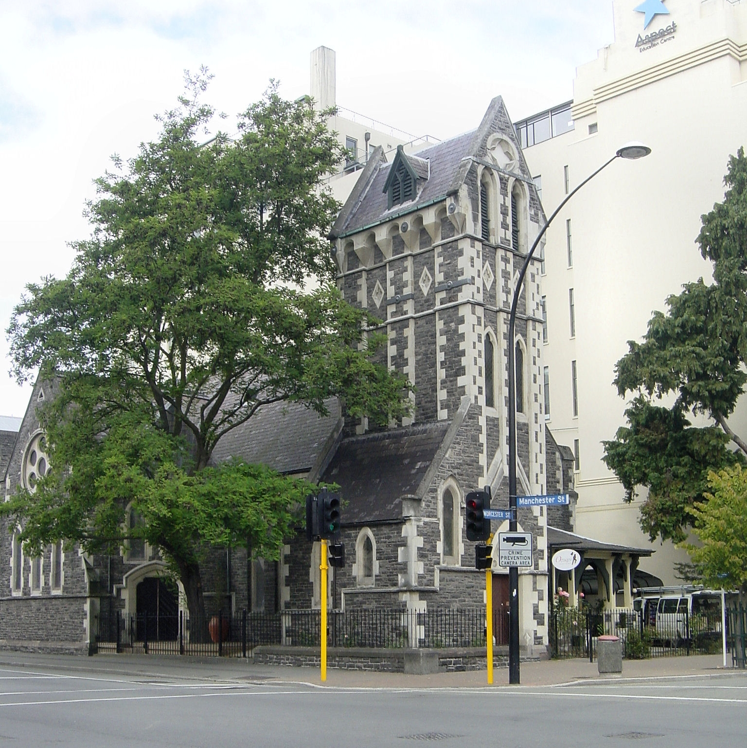 The church was designed by B. W. Mountfort and built in 1874. In 1974 the State Insurance Company purchased it and converted it into the State Trinity Centre. It opened in its new form in late 1975.